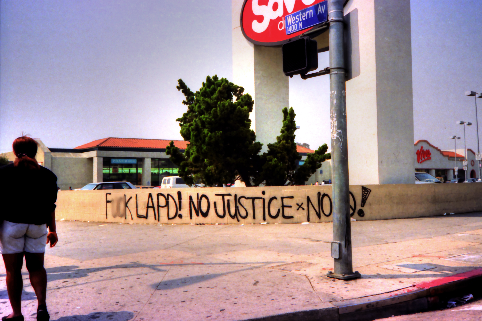 No justice, no peace! During the LA Riots. Twenty years ago, in regards to racism, in many neighborhoods in Los Angeles, the police department was perceived as part of the problem (more than today).